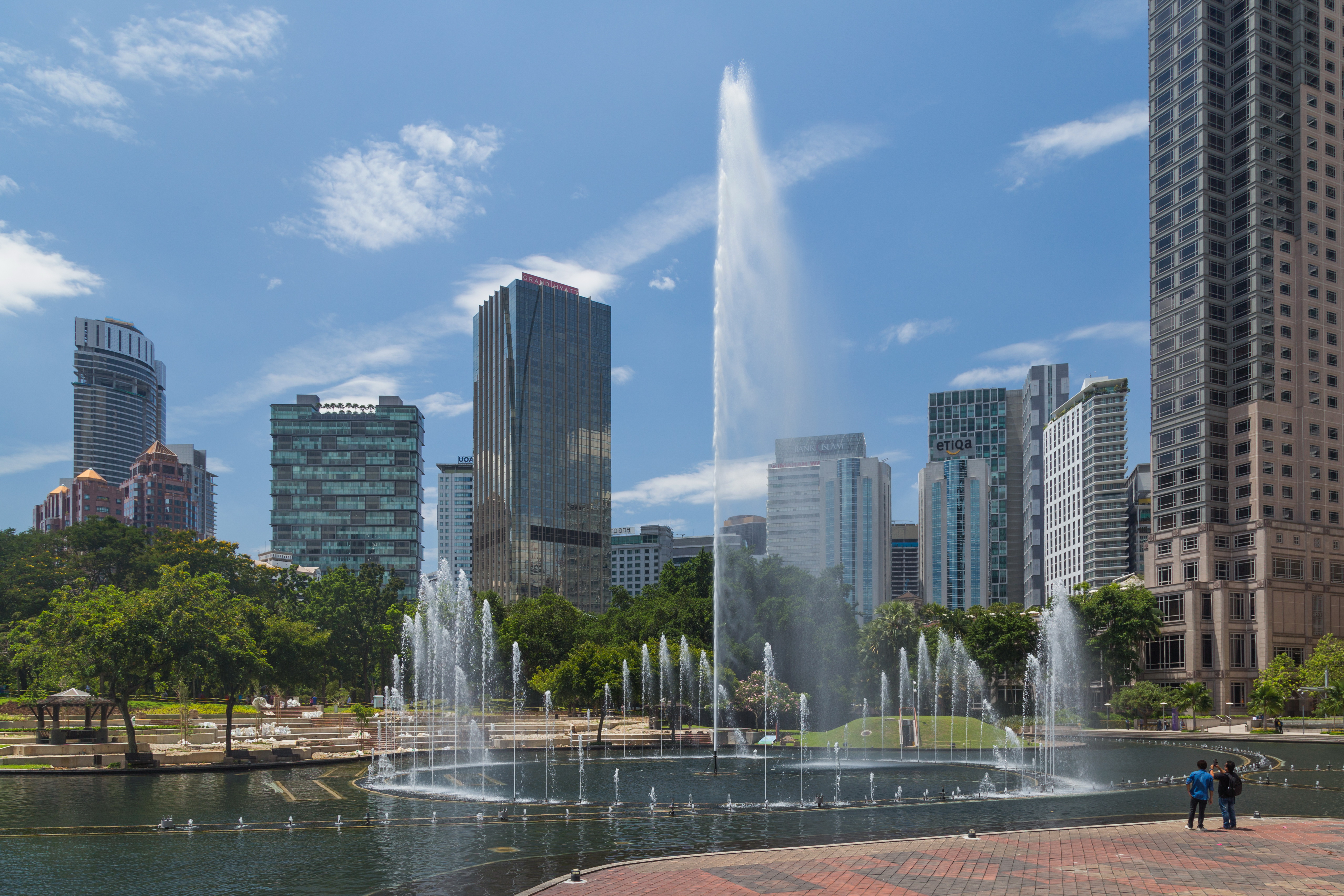 Water fountain on Symphony Lake. KLCC Park. Kuala Lumpur, Malaysia.